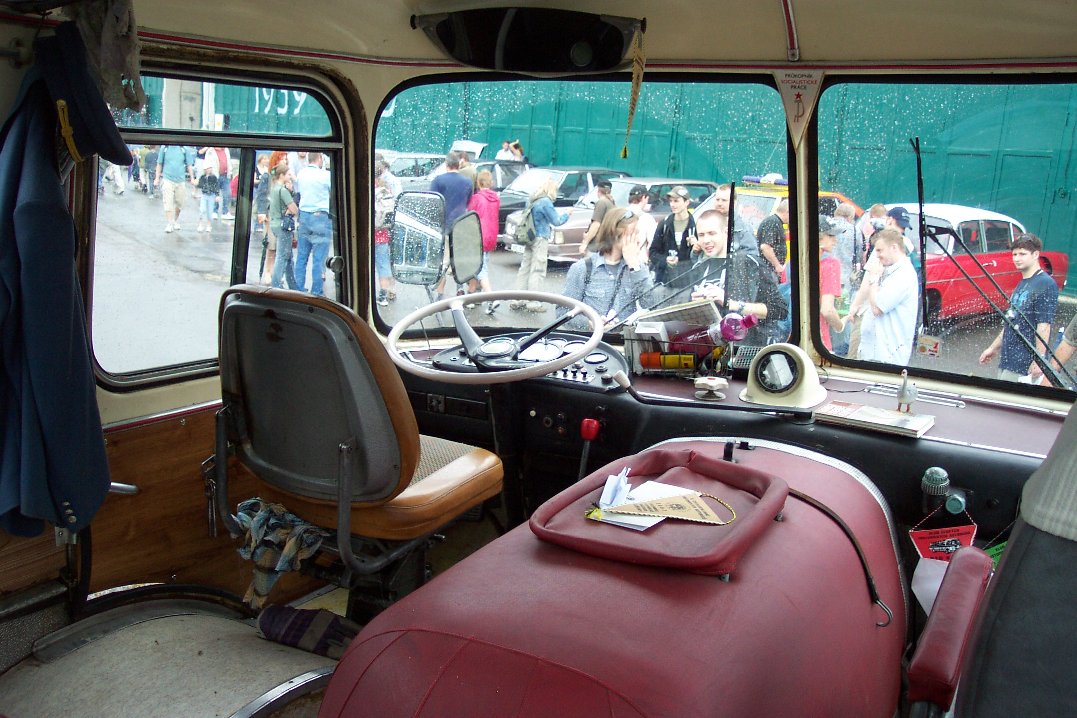 Renovated bus type Škoda 706 RTO in the Lešany museum